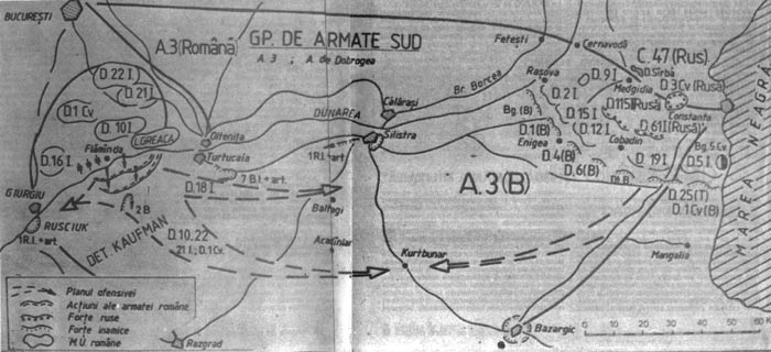 Flămânda Offensive opperation map.